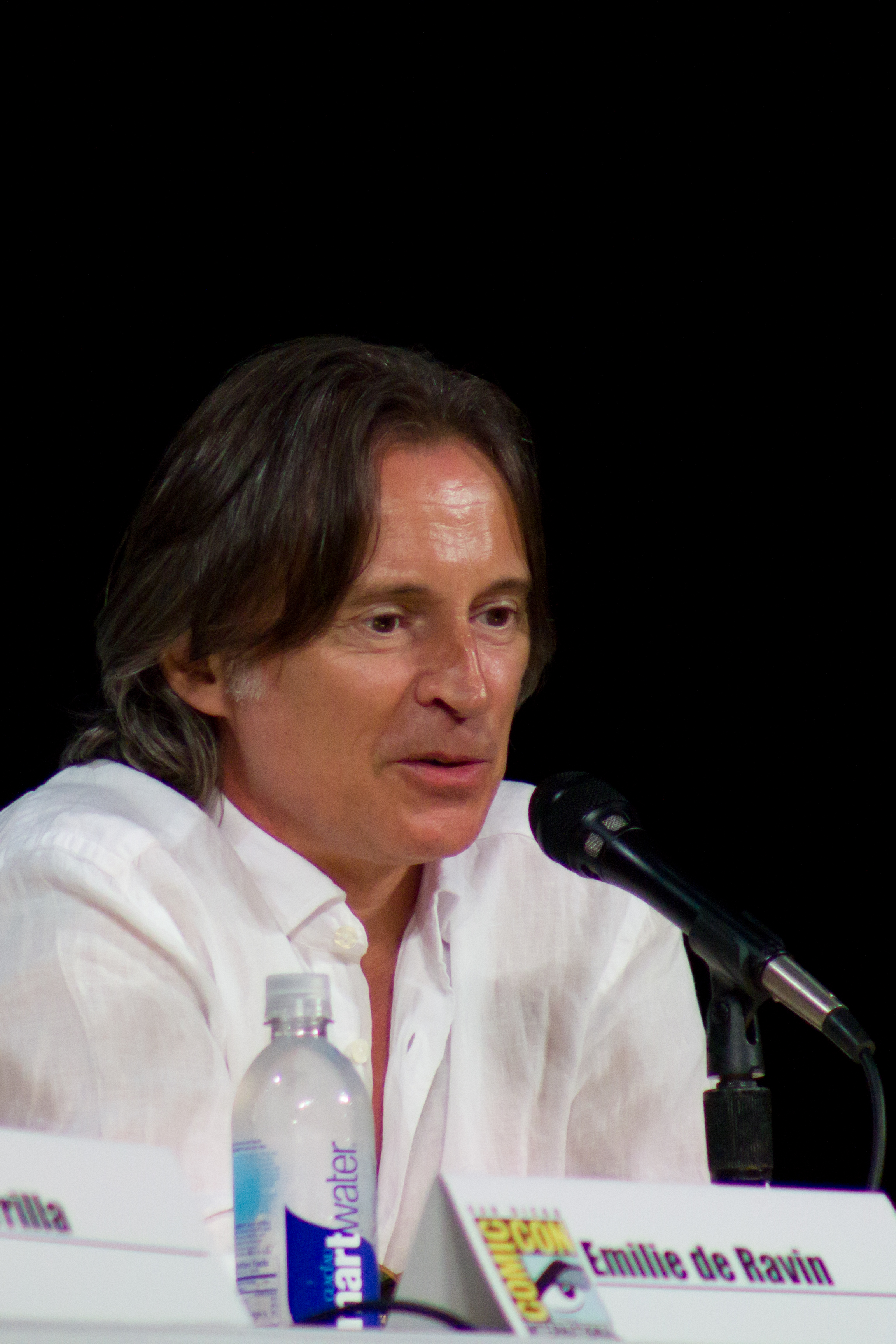 Robert Carlyle Once Upon a Time Panel at the 2014 Comic-Con International.